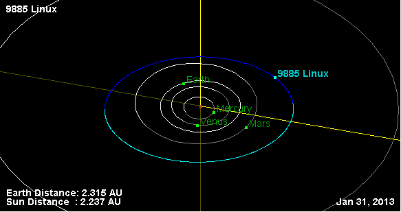 Orbit of the asteroid 9885 Linux.